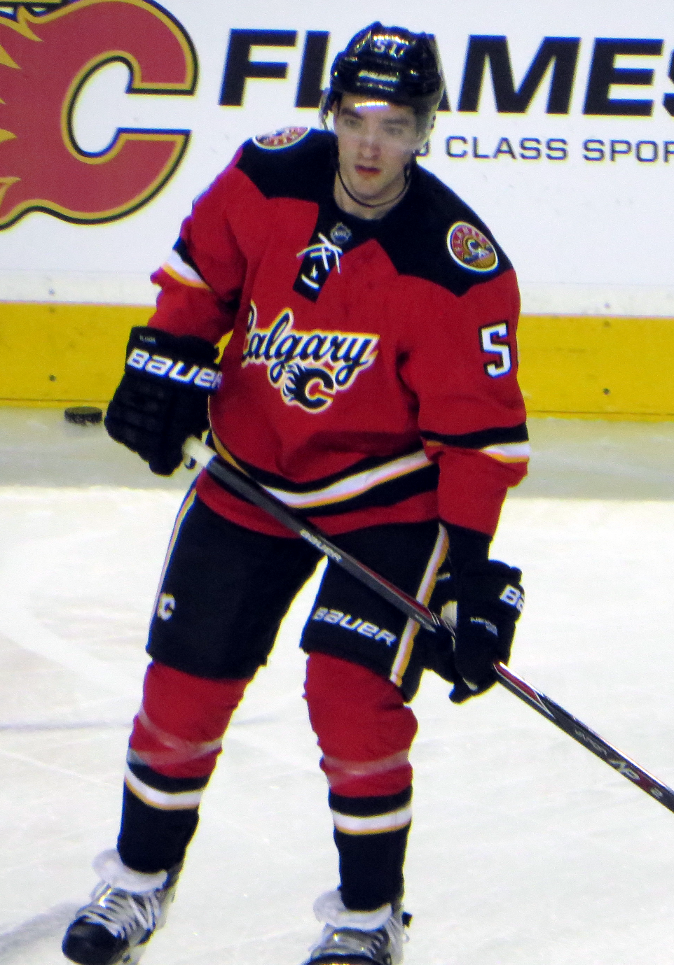 Calgary Flames forward Kenny Agostino prior to a National Hockey League game against the New York Rangers.